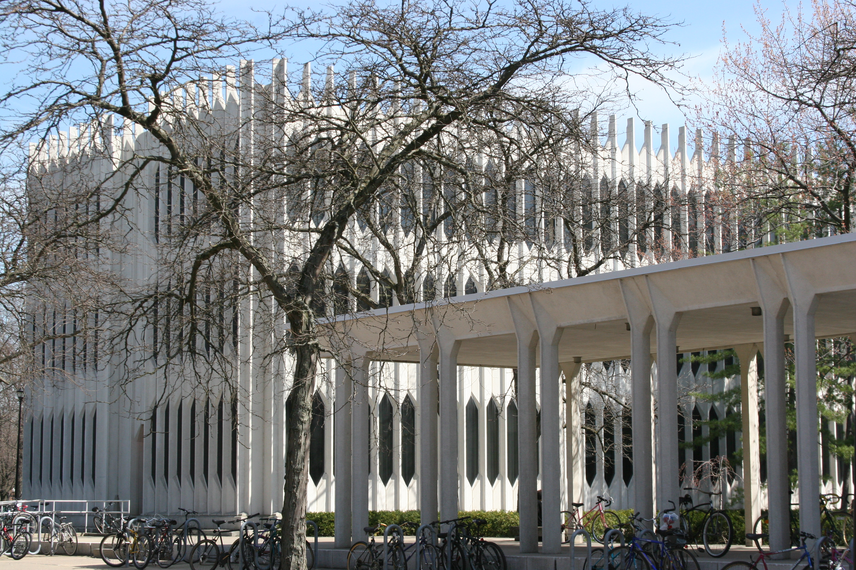 Music Conservatory at Oberlin College, designed by Minoru Yamasaki